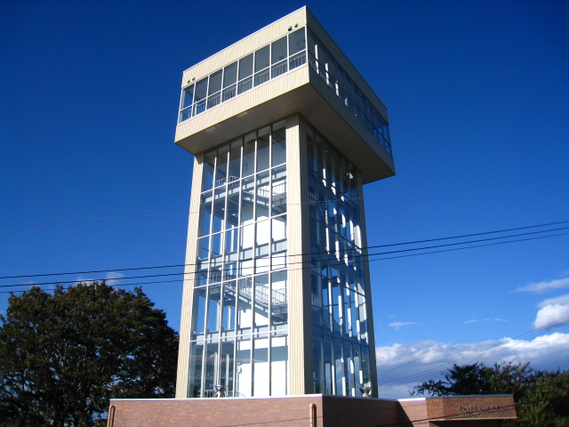 GURETTO TOWER MINATO of Hachinohe in Aomori,Japan